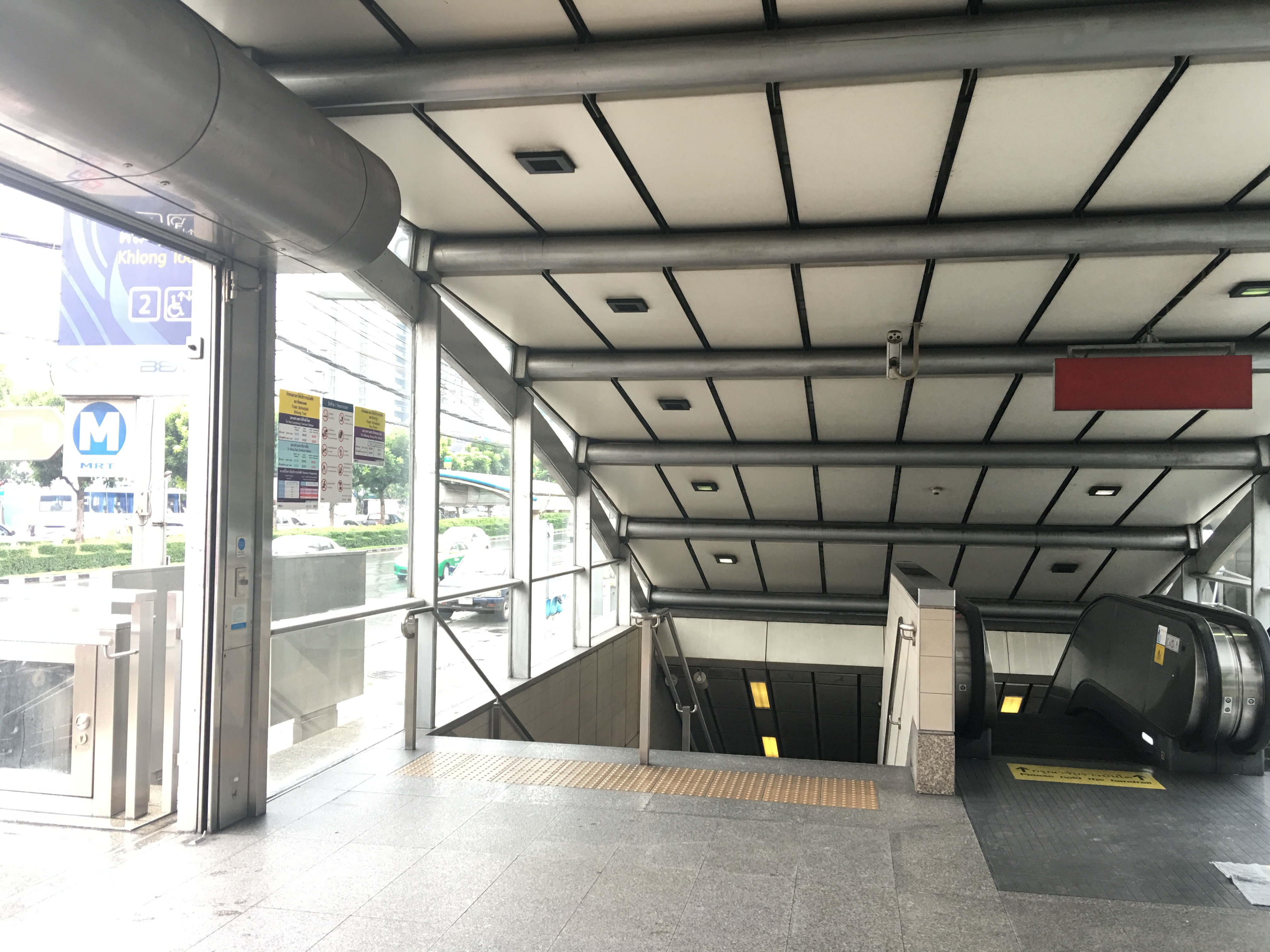 The entrance of Khlong Toei Station